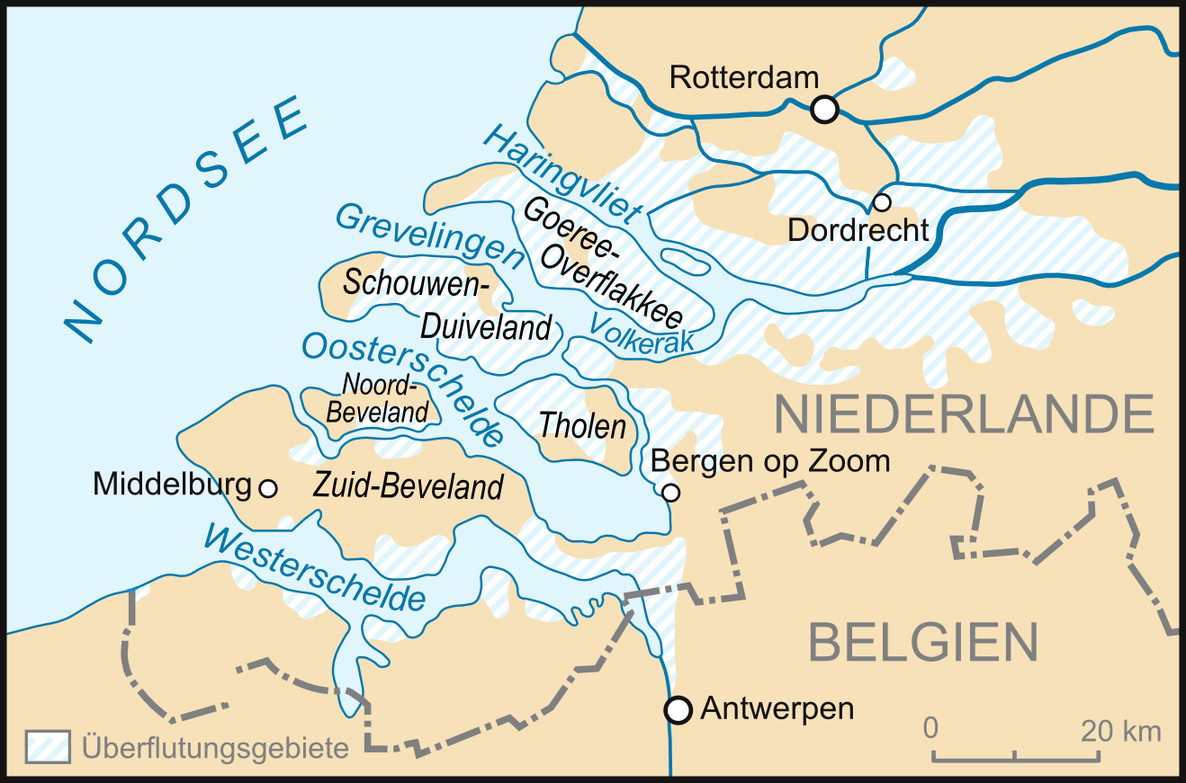 North Sea flood of 1953